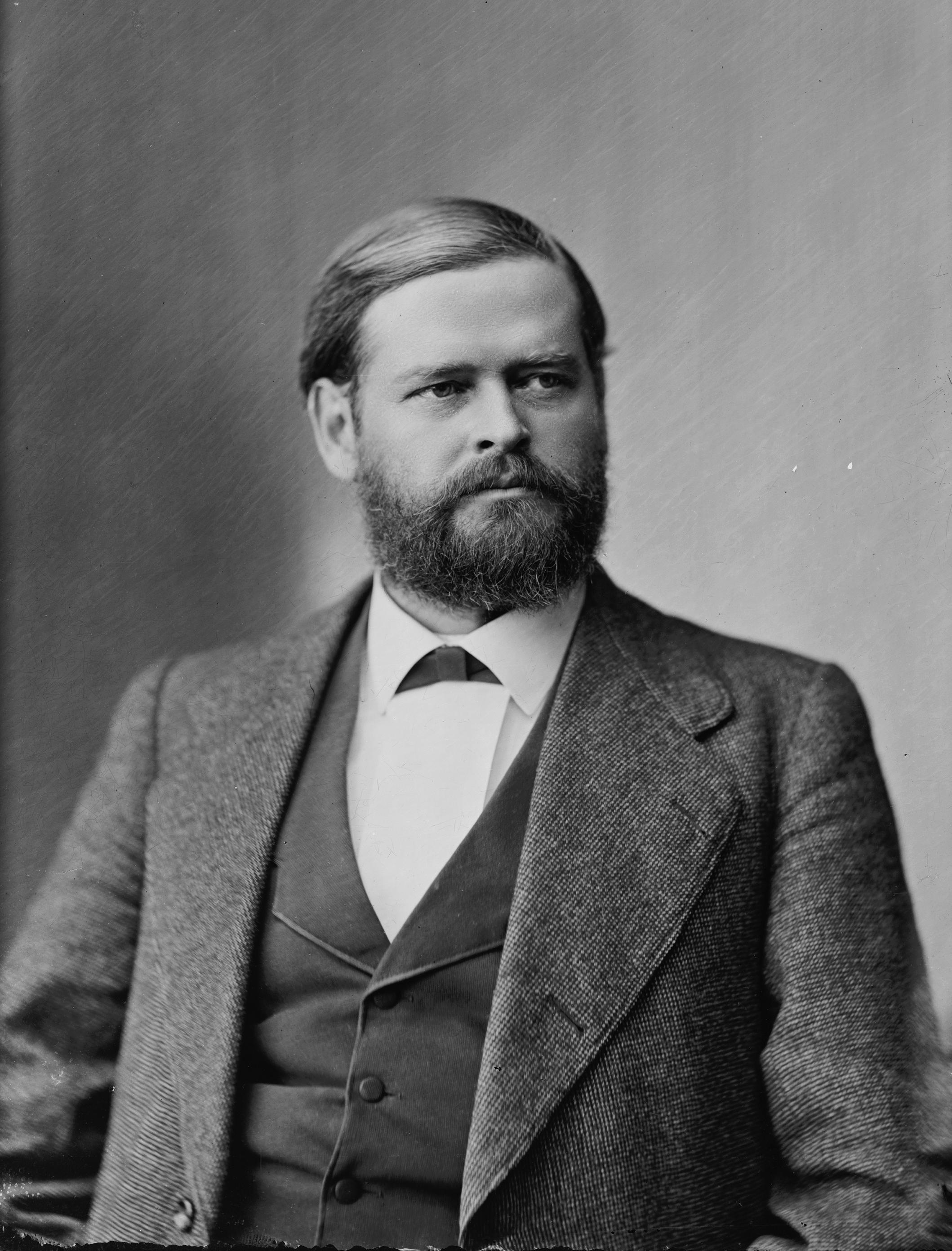 Julius C. Burrows. Library of Congress description: "Burrows, Hon. Julius Caesar of Mich"